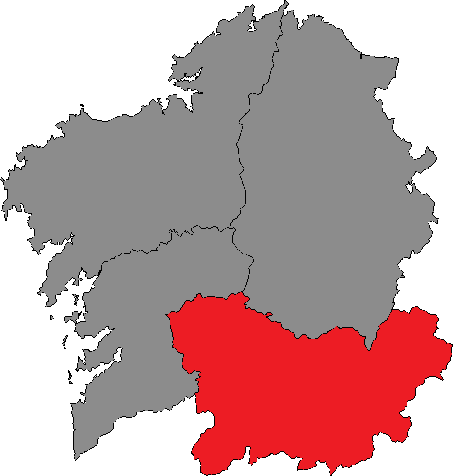 Galician Parliament district of Ourense.